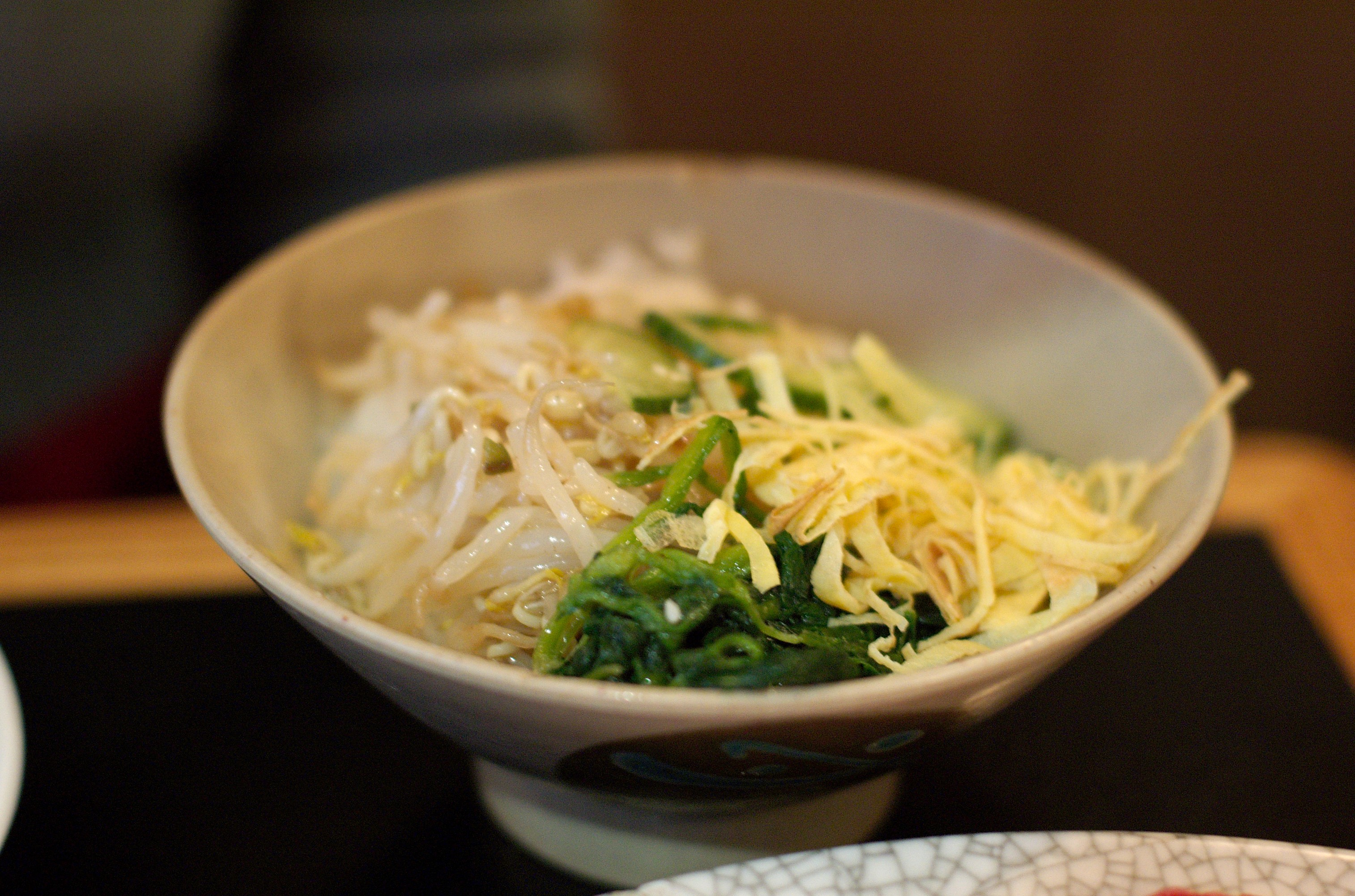 Namul, sauteed vegetables in Korean cuisine